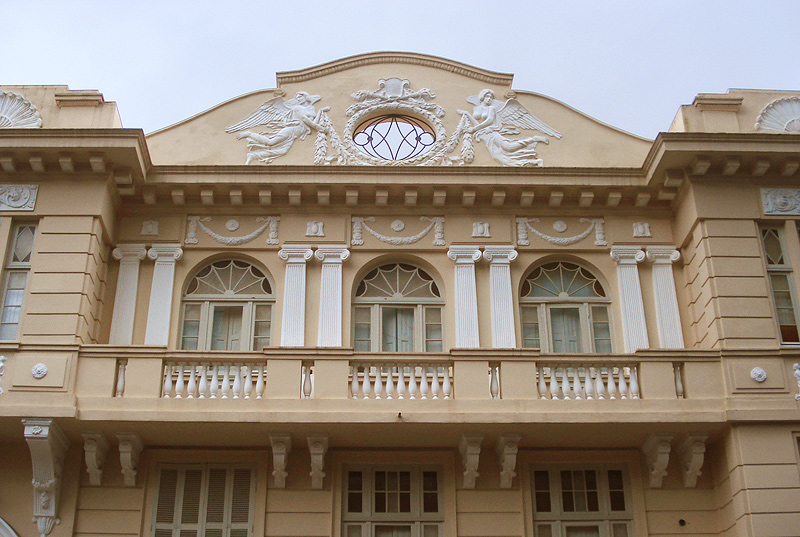 Detail of the Tuyuti Building's façade in Porto Alegre, Brazil